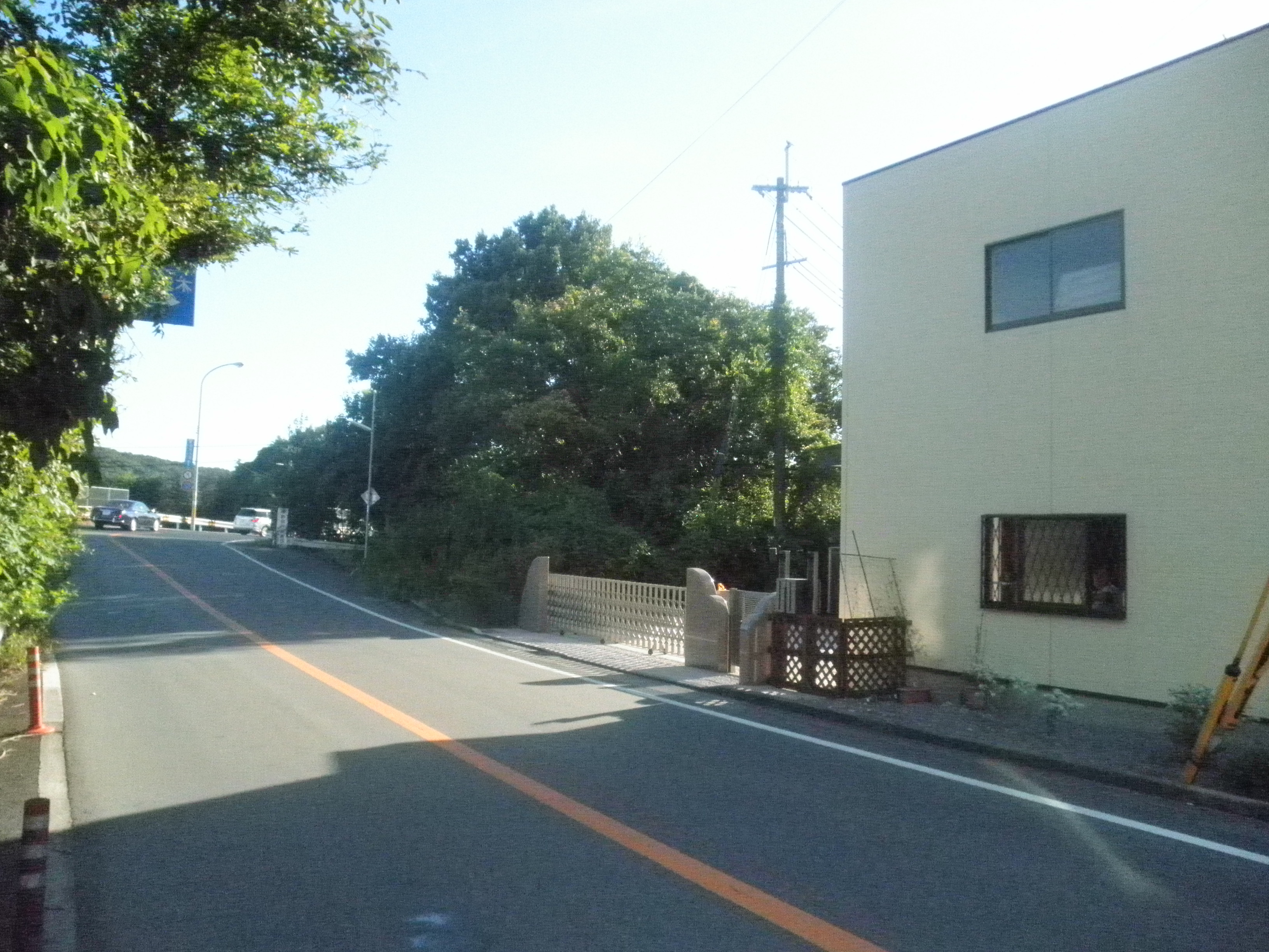 Oshibedanitown Fukusumi Nishi-ku Kobecity Hyogopref. Hyogoprefectural road 83 Kobe Miki Line